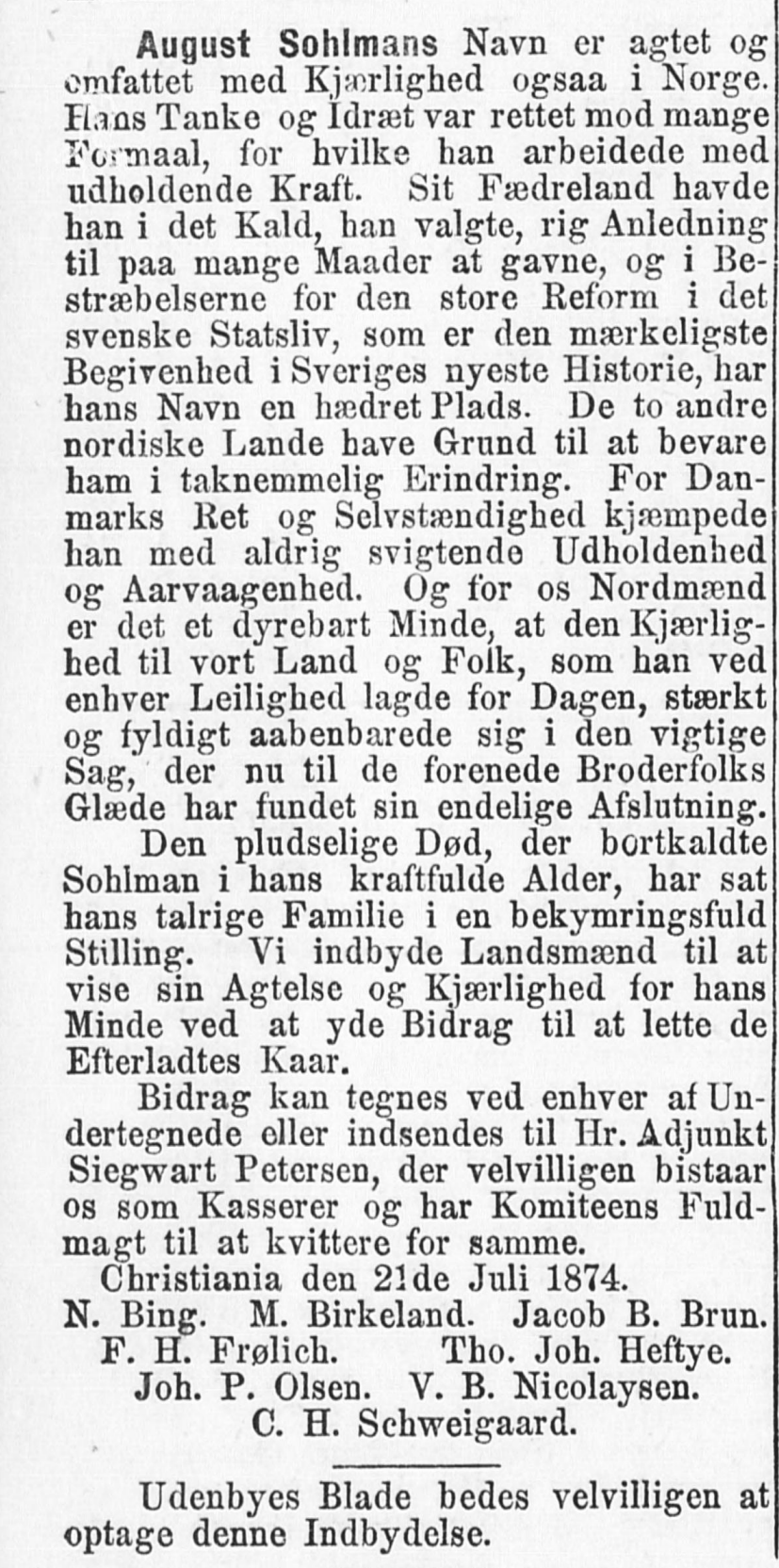 Norwegian Obituary in the Norwegian newspaper "Morgenbladet" for the Swedish journalist and politician August Sohlman. Written and signed by N. Bing, M. Birkeland, Jacob B. Brun, F. H. Frølich, Tho. Joh. Heftye, Joh. P. Olsen, V. B. Nicolaysen and C. H. Schwigaard.